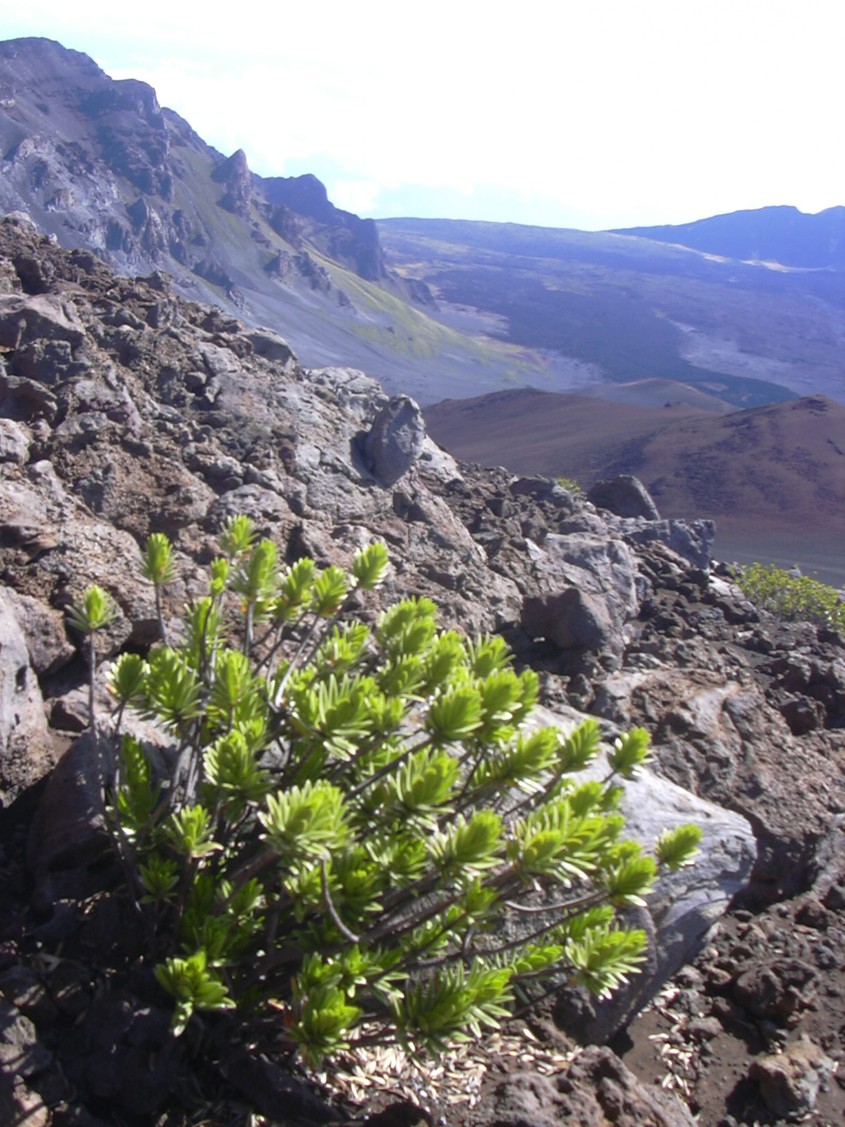 Dubautia menziesii (habit). Location: Maui, South rim Haleakala National Park